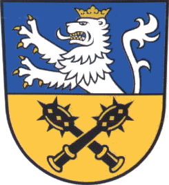 Coat of Arms of Ingersleben